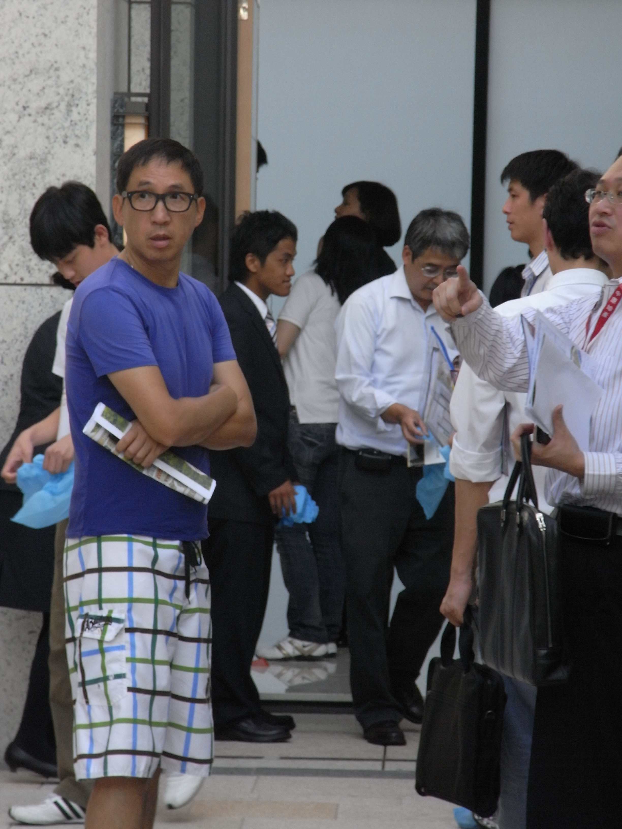 導演張堅庭